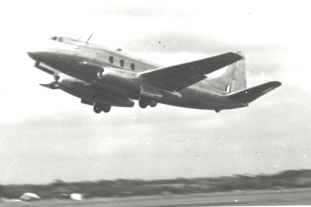 Vickers 663 Tay Viscount at Farnborough SBAC show